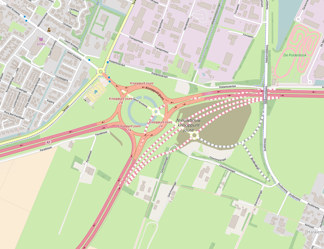 Map of Interchange Knooppunt Joure.